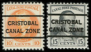 Precancels of Cristobal, the U.S.A. Panama Canal zone, 1928